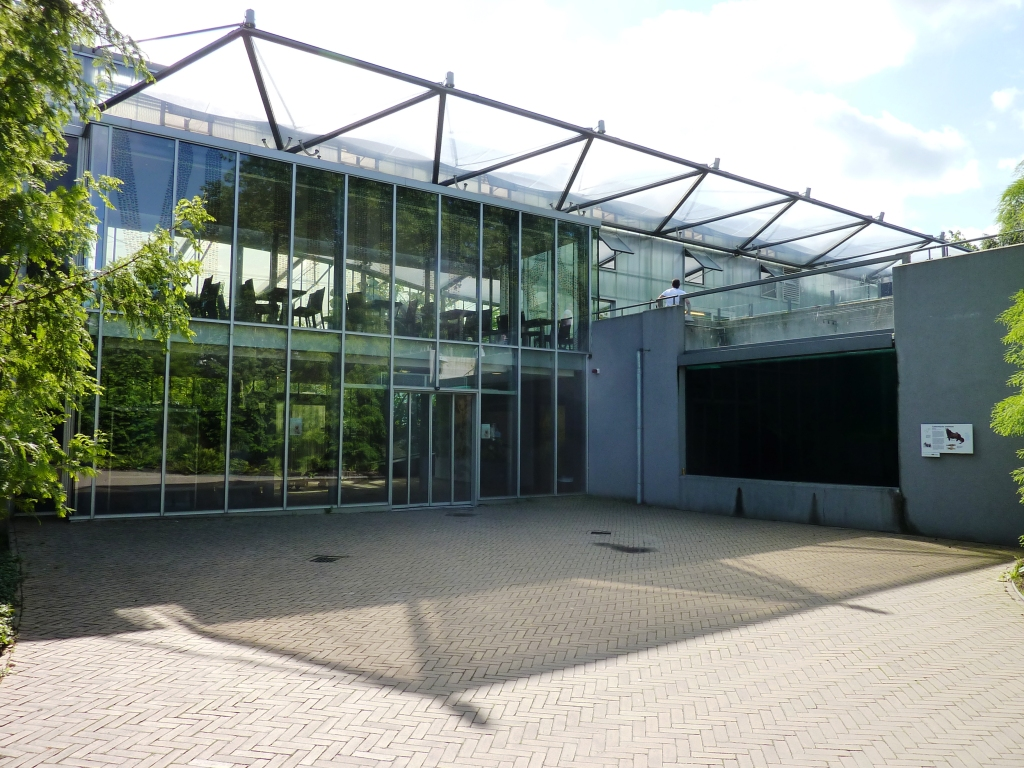 Butterfly House and Sealion tank at Artis